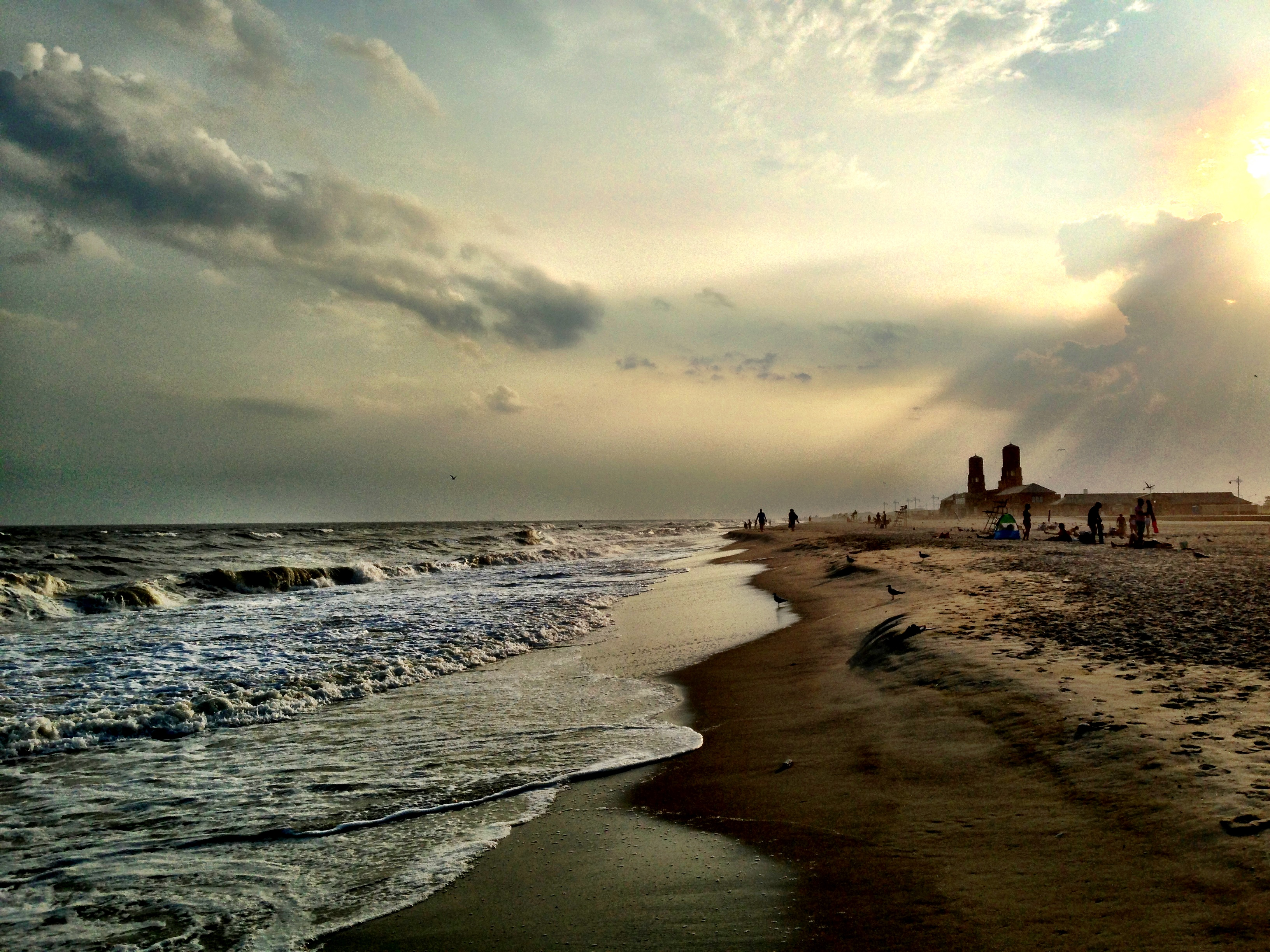 The beach at New York City's Jacob Riis Park in the Gateway National Recreation Area over Labor Day weekend.